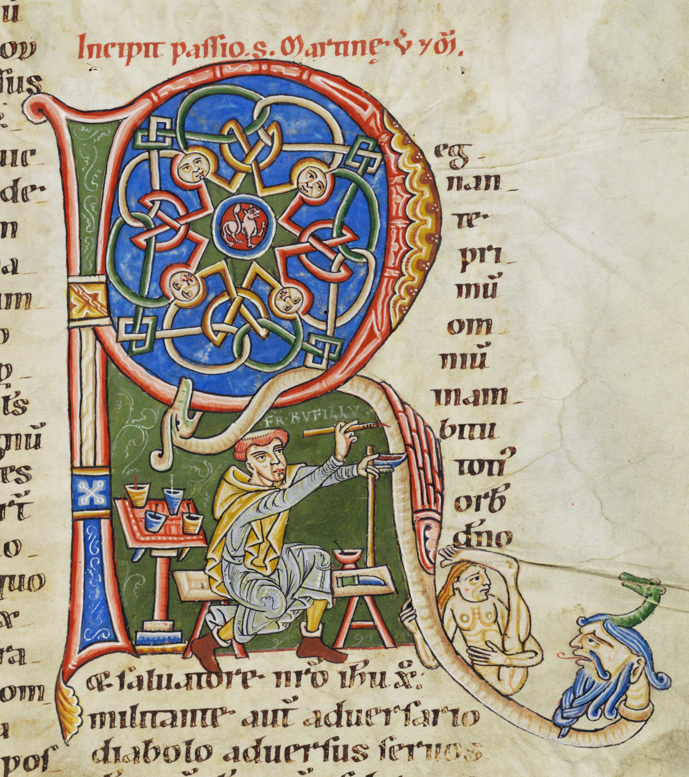 Cologny, Fondation Martin Bodmer, Cod. Bodmer 127 (Weißenauer Passional), fol. 244r, Detail: Initiale R mit Selbstportrait des Illuminators Fr. Rufillus